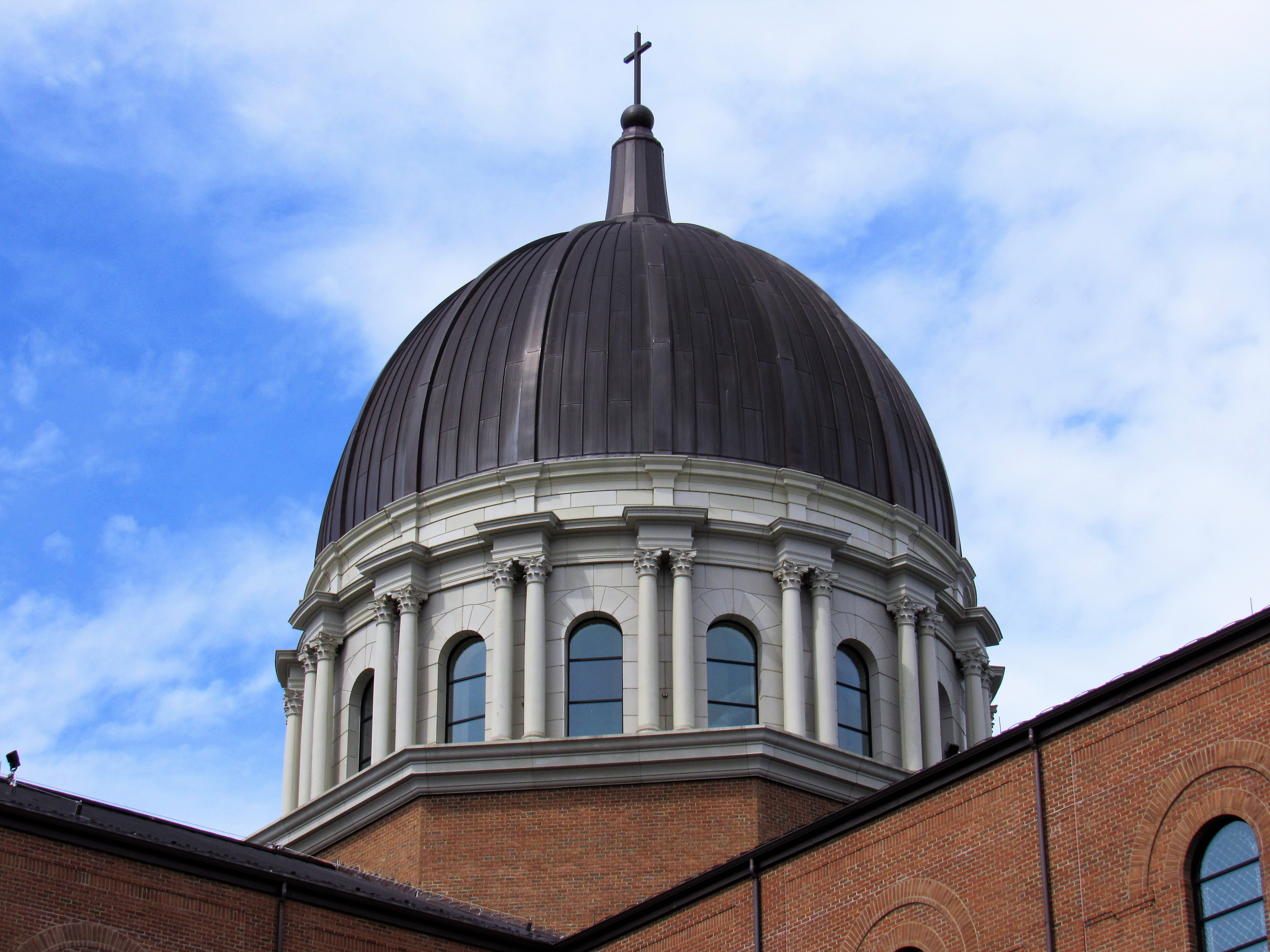 Holy Name of Jesus Cathedral in Raleigh, North Carolina.